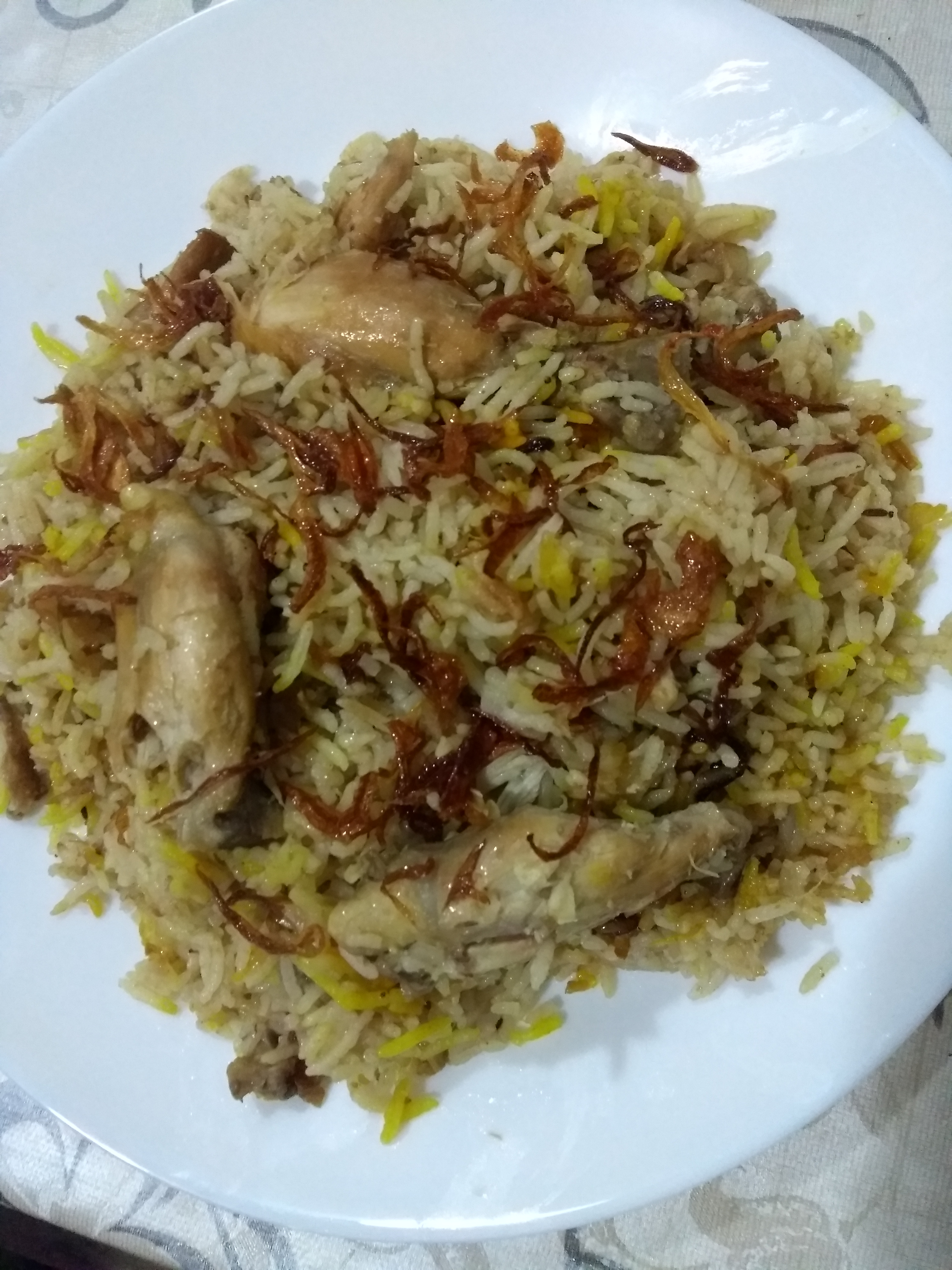 Pakistani Zafrani Chicken Pulao - Karachi style.